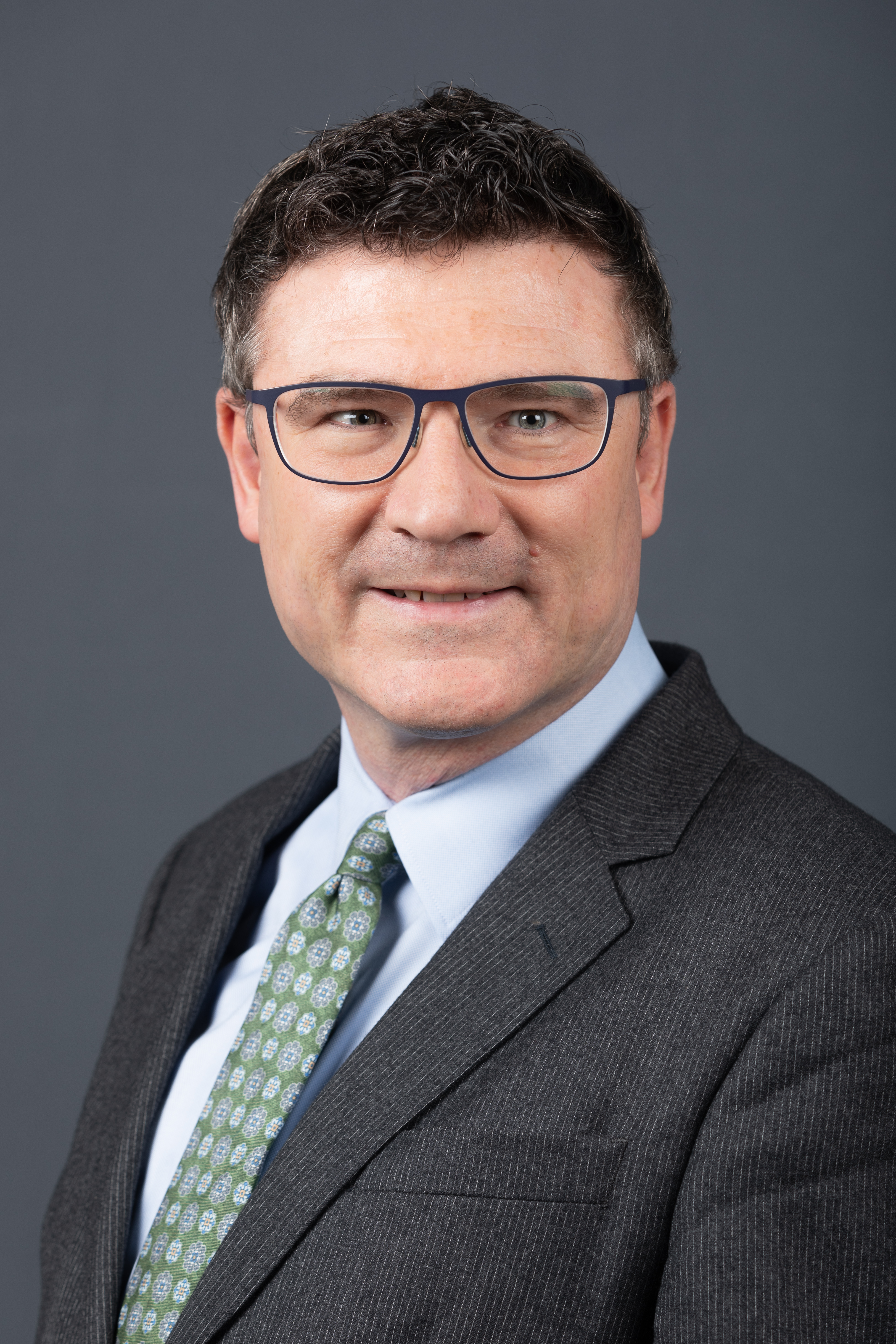 Stefan Kaufmann, Member of the German Bundestag, Berlin, Febuary 2020